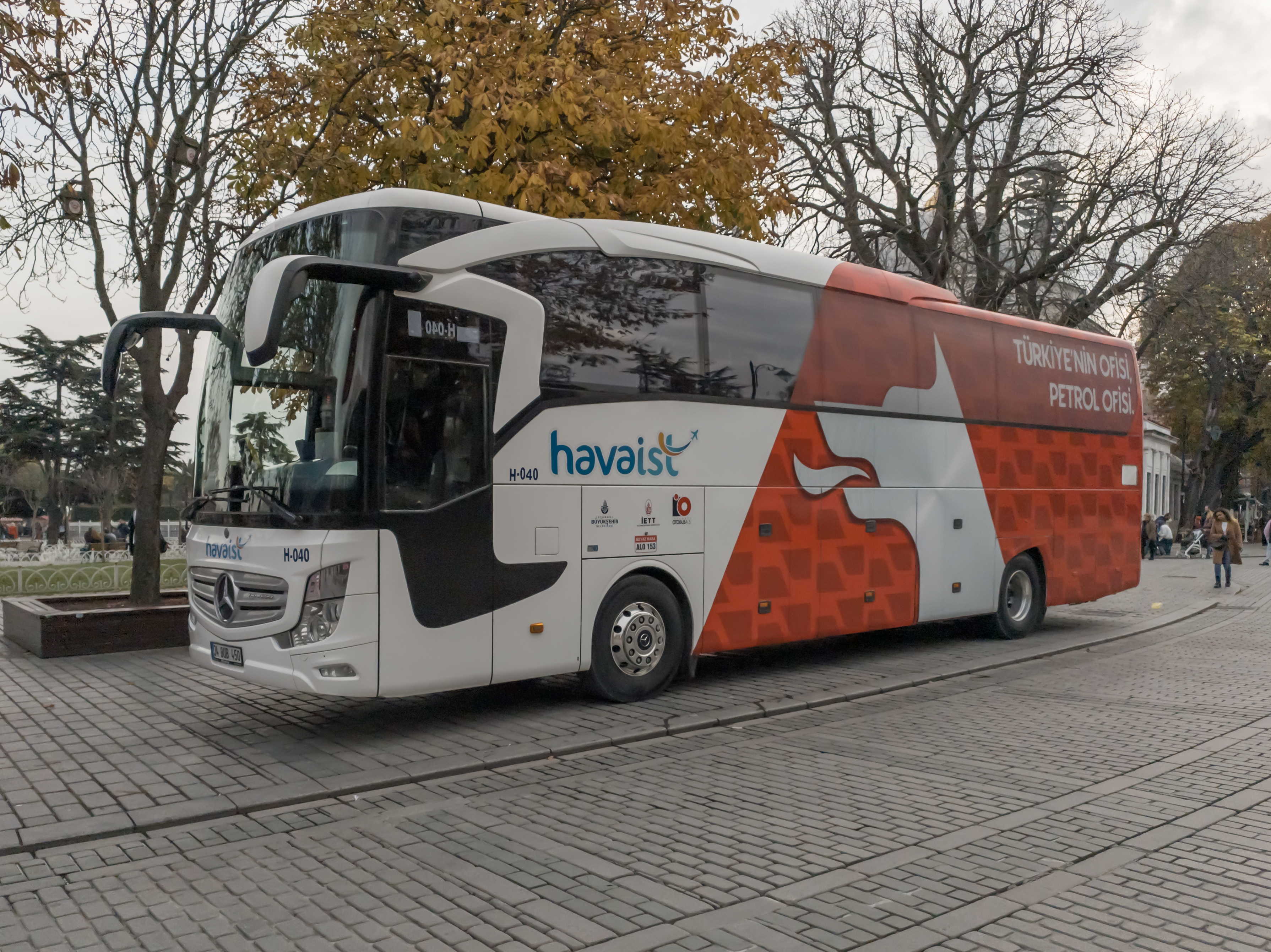 Mercedes-Benz Travego in Istanbul